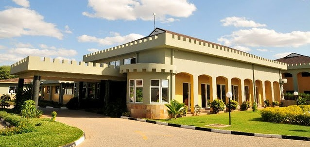 The reception of a hotel based in Garissa Town, Garissa County